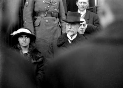 Tomáš Garrigue Masaryk – first president of Czechoslovakia leaving train on his stopover in Tábor on his return journey to Prague. To his left daughter Olga, who returned from exile with him.